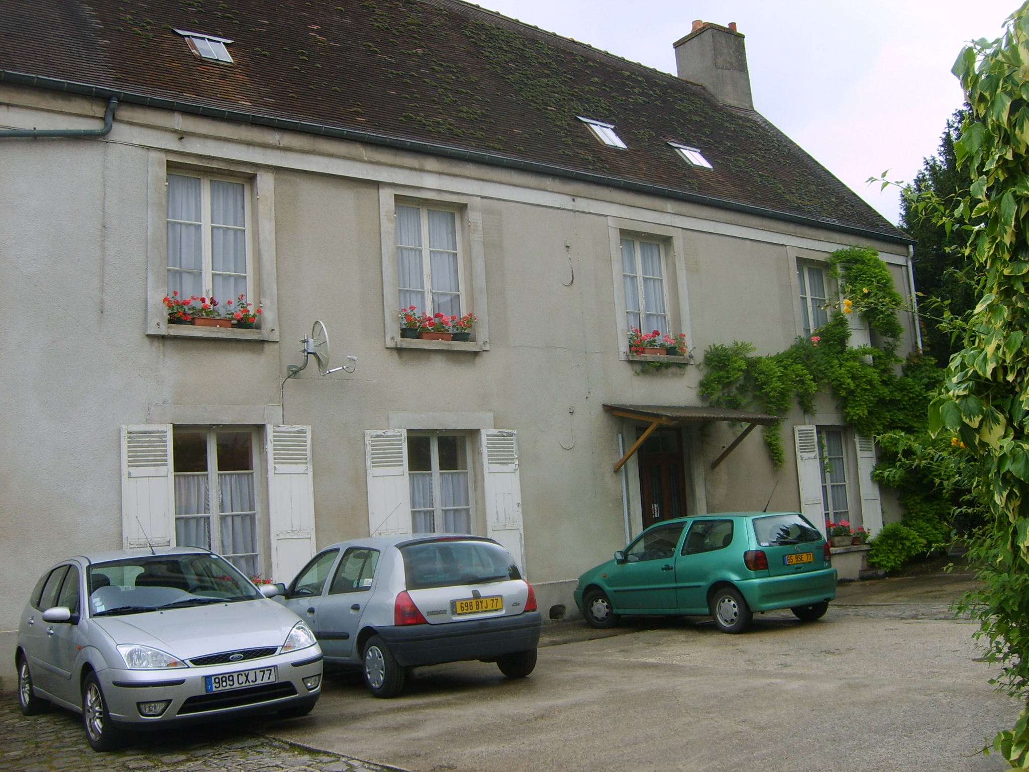 Presbytère of Brie